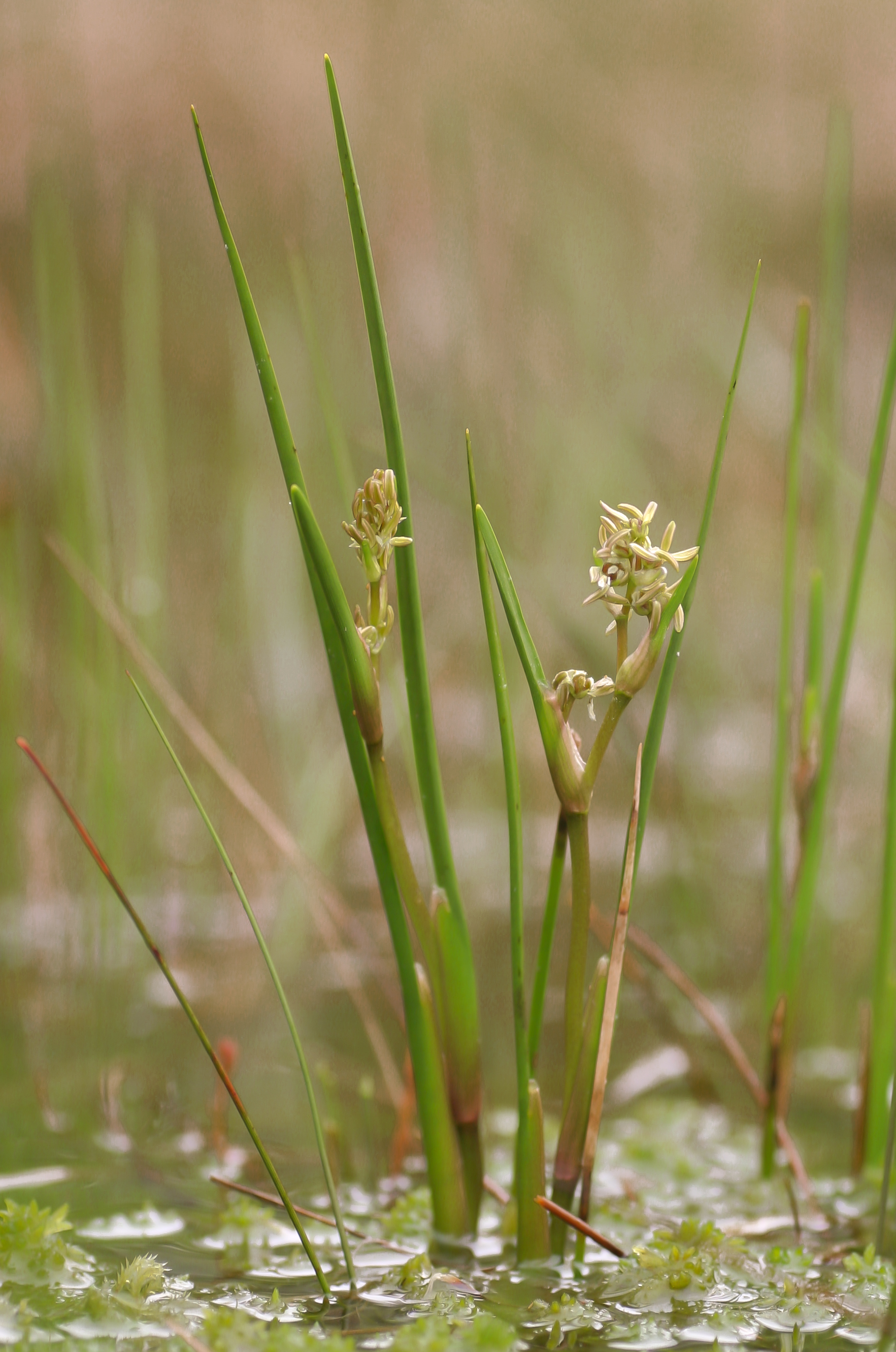 Scheuchzeria palustris flowering. Ommen area, Netherlands